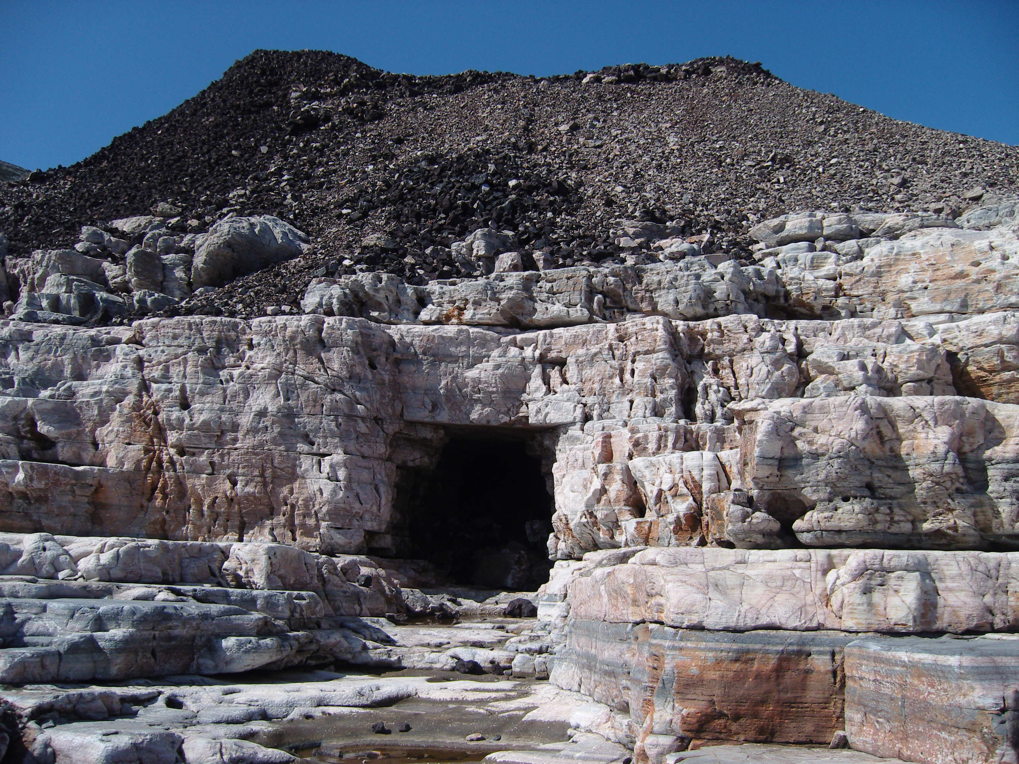 One of the entrances of mine 1 in Agios Sostis mine on Sifnos island.